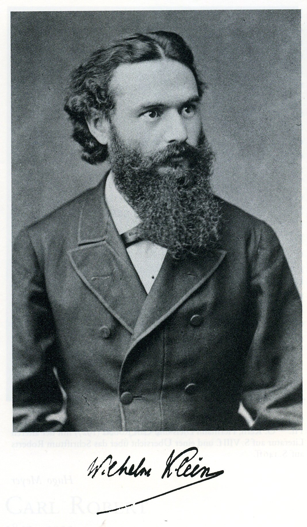 Austrian Archaeologist Wilhelm Klein (1850-1924)